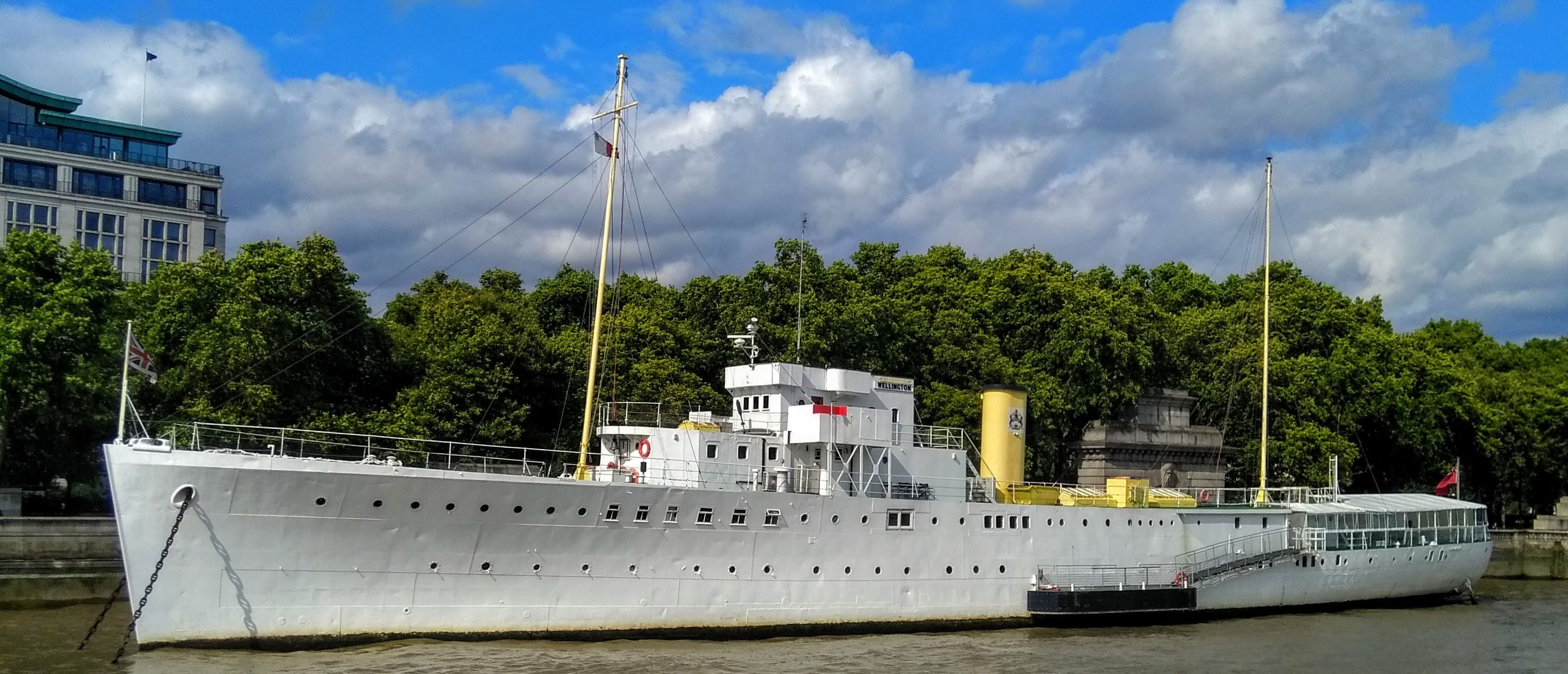 Port quarter view of HQS Wellington, headquarters ship and livery hall of the Worshipful Company of Master Mariners